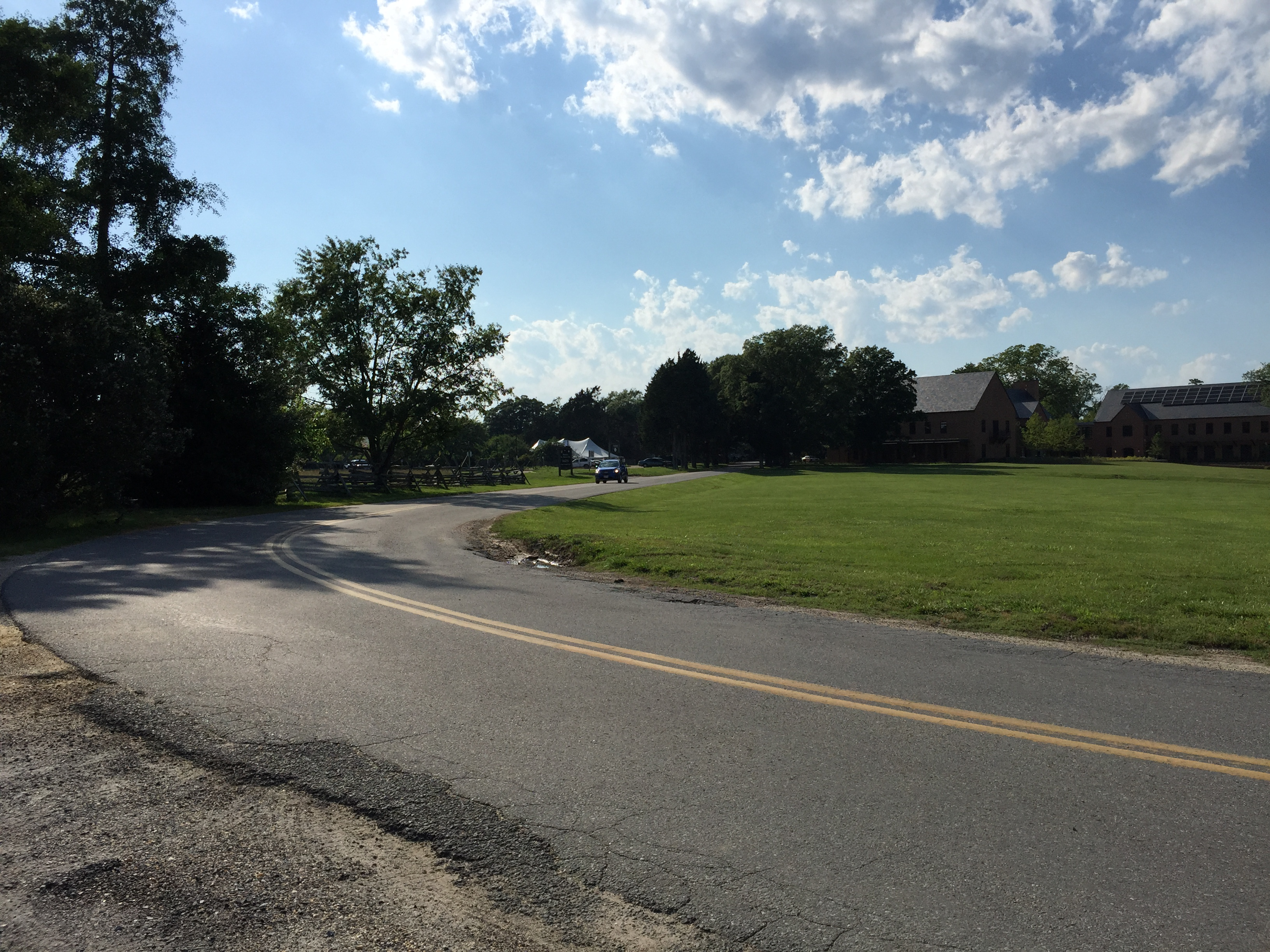 View north along Maryland State Route 584 (Old Statehouse Road) at Maryland State Route 5 (Point Lookout Road) in St. Mary's City, St. Mary's County, Maryland